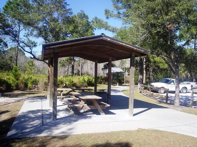 Taken by me, Mikereichold 00:03, 27 January 2006 (UTC), on Jnuary 26, 2006 at werner-boyce salt spring park, pasco county, florida. Picnic pavillion at the Scenic Drive trailhead. More amenities are planned.